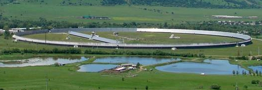 The RATAN-600 radio telescope, located at Zelenchukskaya in the North Caucasus, Russia, has the largest aperture of any single radio telescope in the world. Beginning operation in 1977, it consists of a ring of angled plane reflectors 600 m in diameter, focusing radio waves on a central conical feed antenna. It covers a frequency range of 600 MHz to 30 GHz with an angular resolution of 1 arcminute at 30 GHz.